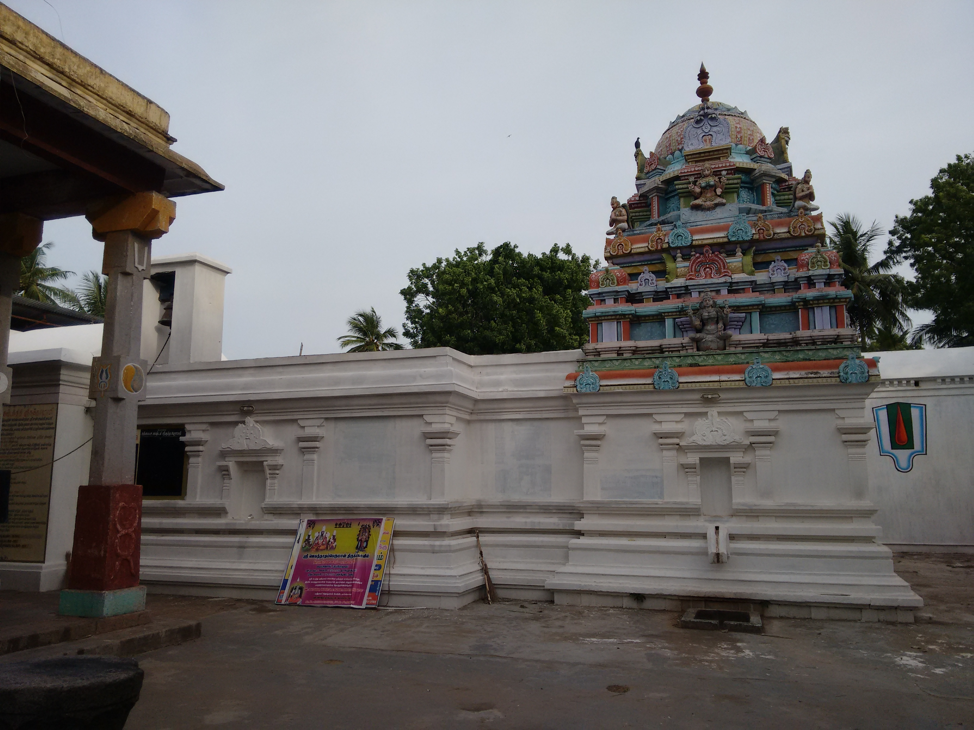 Nathankovil near Pattiswaram பட்டீஸ்வரம் அருகே நாதன்கோயில்